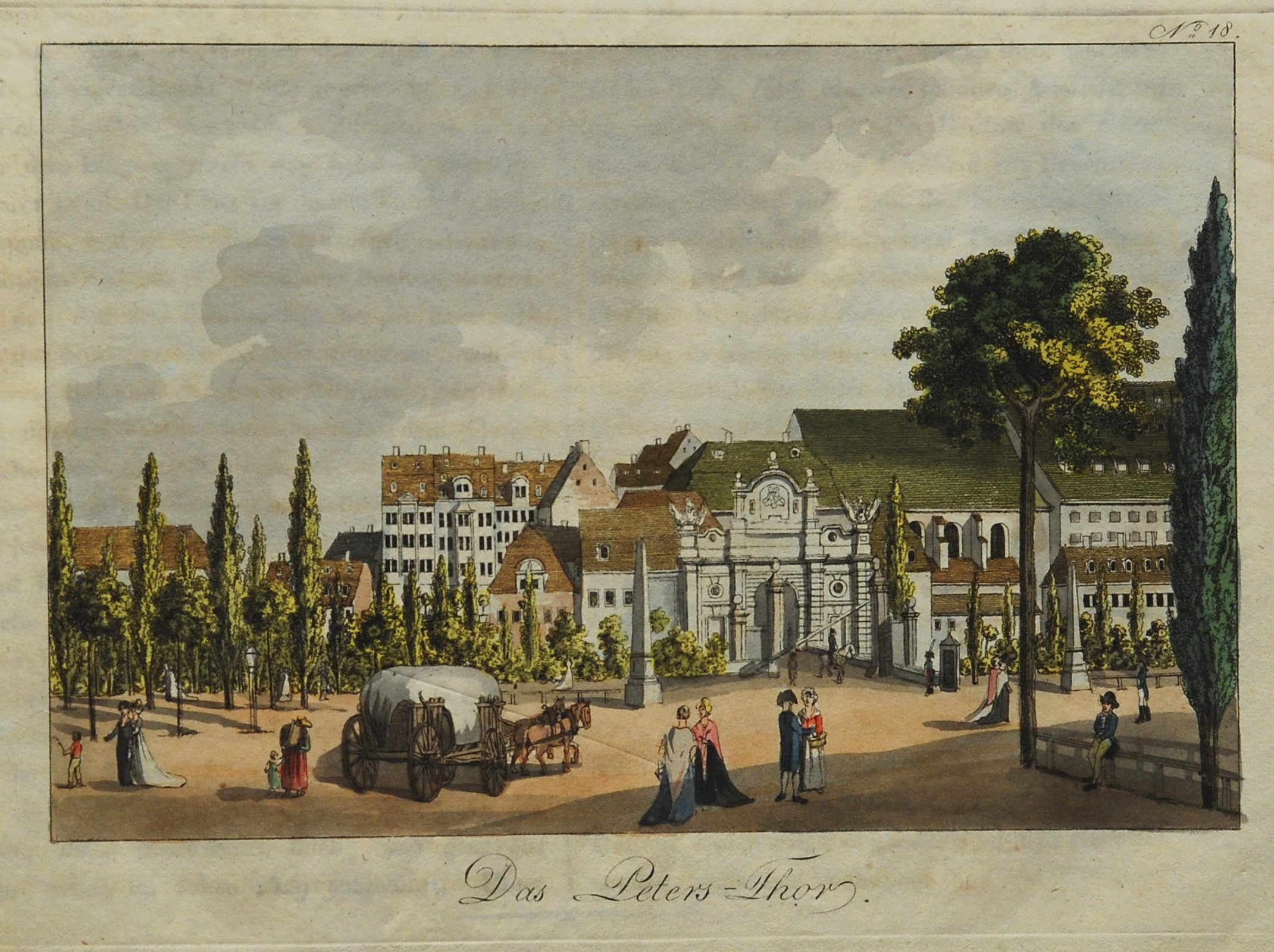 Leipzig 1804 Das Peterstor Aquarellierter Kupferstich 15,5 x 21 cm (Plattenrand) aus: Schwarz, Karl Benjamin: Romantische Gemählde von Leipzig. Eine Folge von vier und zwanzig Prospecten gezeichnet und gestochen von Karl Benjamin Schwarz. Leipzig: Karl Tauchnitz 1804, 56 S. + 23 aquarellierte Kupfertafeln + 1 nicht kolorierter Stich. Carl Benjamin Schwarz: Vedutenstecher, Zeichner, Radierer, Farbstecher und Aquarellist (*1757 Leipzig, † 21.10.1813 ebenda). Schüler Oesers; Kustos an der Winklerschen Kunstsammlung (THIEME-BECKER Bd. 30, S. 365).